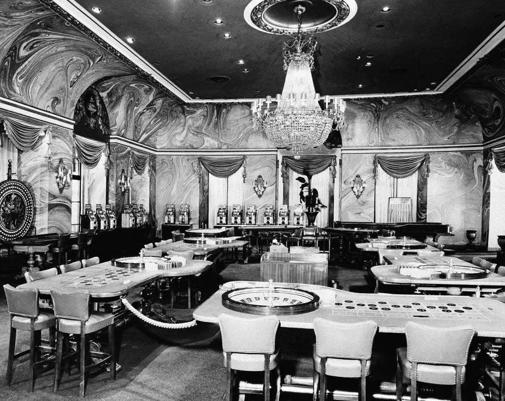 General view of international Casino in Hotel Nacional De Cuba in Havana, October 1, 1958. This is one of the ten big casinos in Cuba whose operations now are in hands of North American gambling interests.